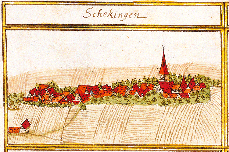 View of Schöckingen, Ditzingen, from the forest register books created by Andreas Kieser